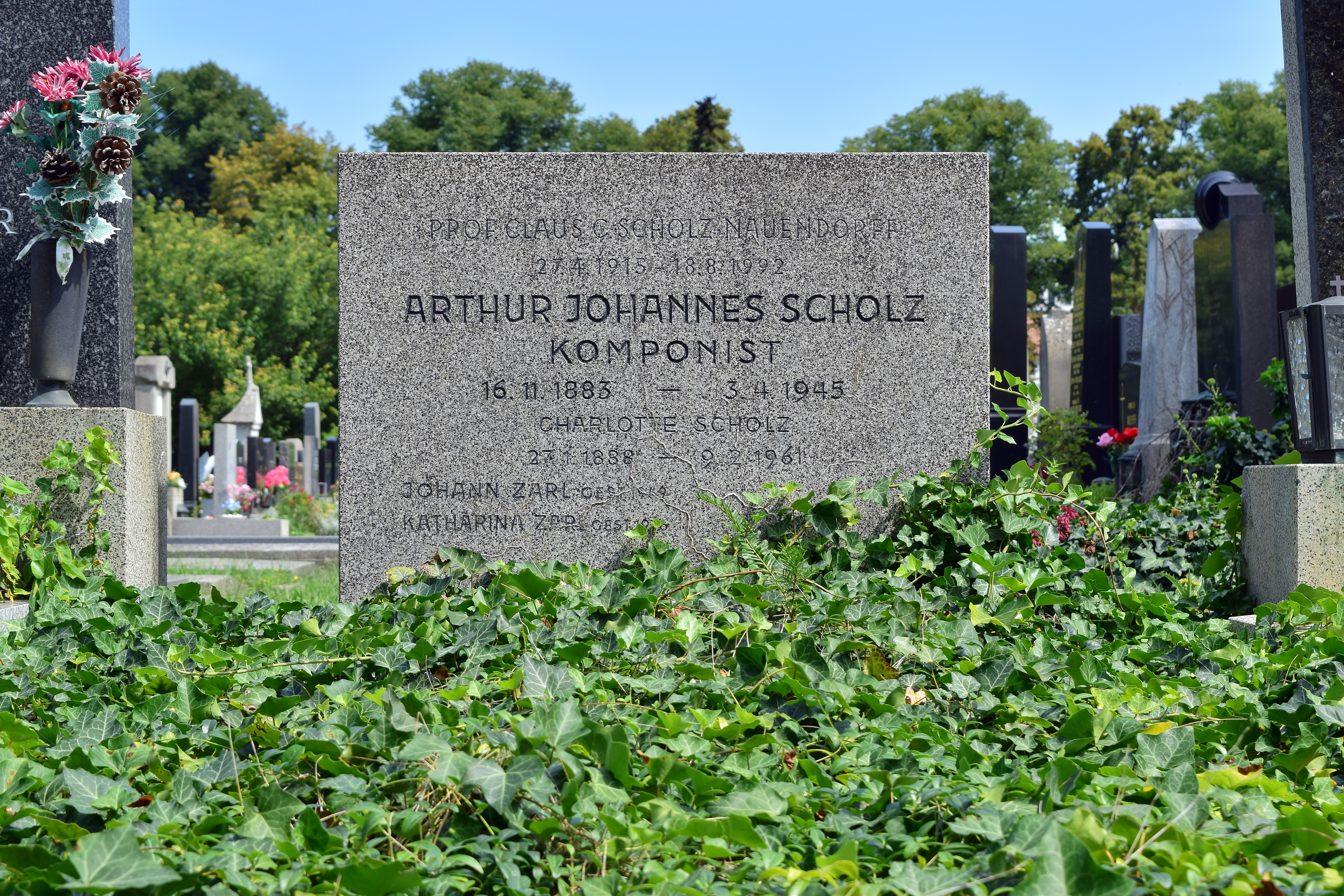 Grave of honor of the Austrian composer Arthur Johannes Scholz at the Wiener Zentralfriedhof